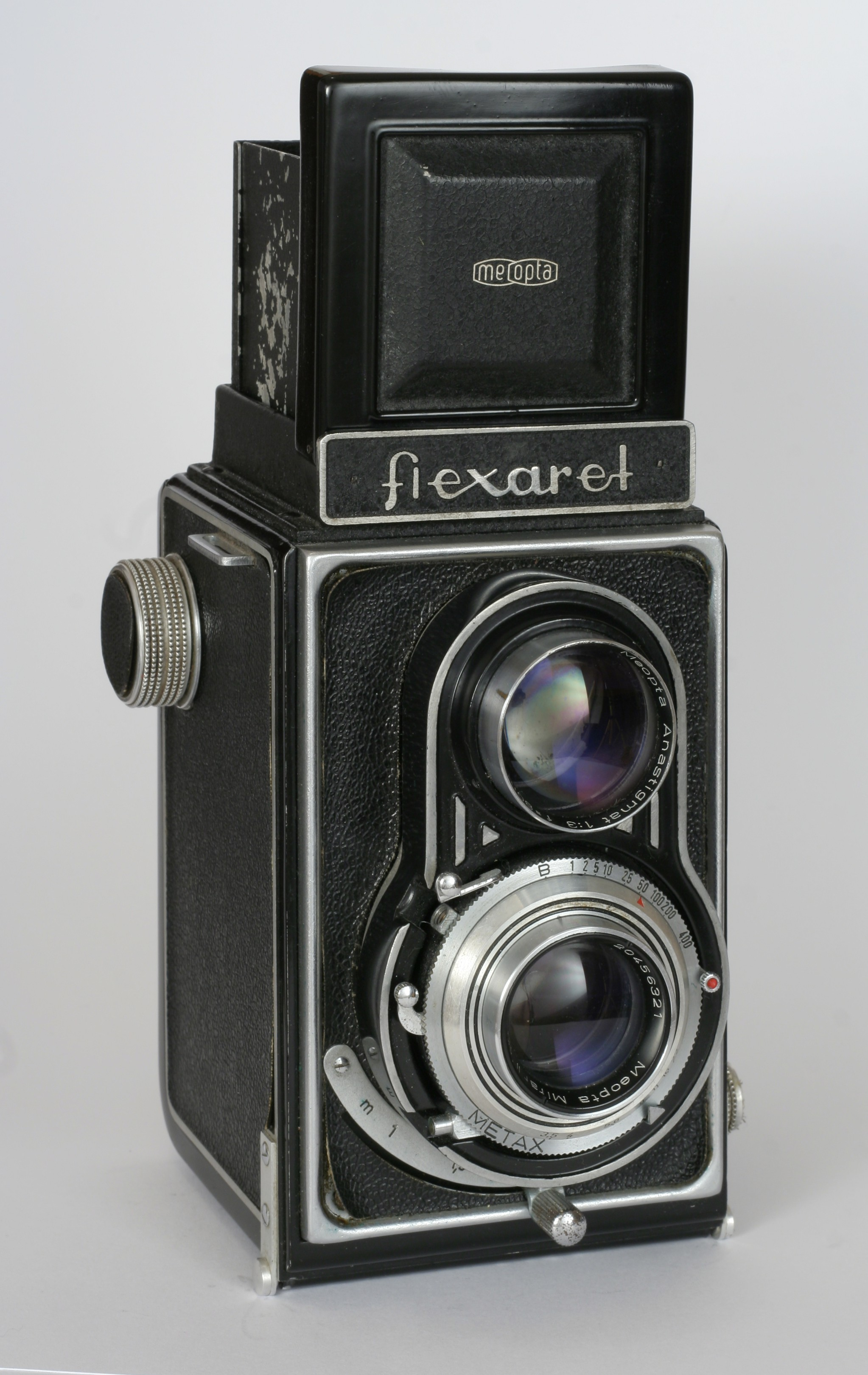 Antique Camera Flexaret IIa